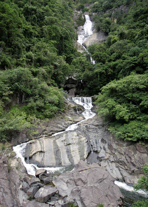 Depicted place: Surprise Creek Falls